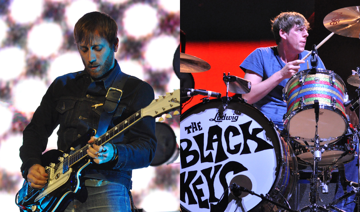 Black Keys, Coachella 2012, Day one, Friday, April 20, 2012